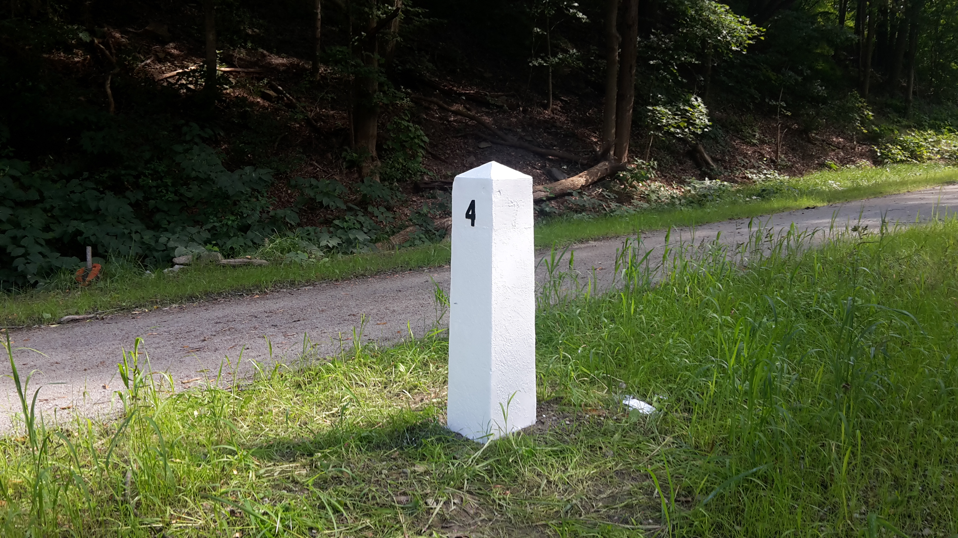 Turtle Creek Industrial Railroad milepost #4 stands next to the Westmoreland Heritage Trail in Murrysville, PA